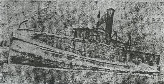 The steamer Thomas Friant before she sank